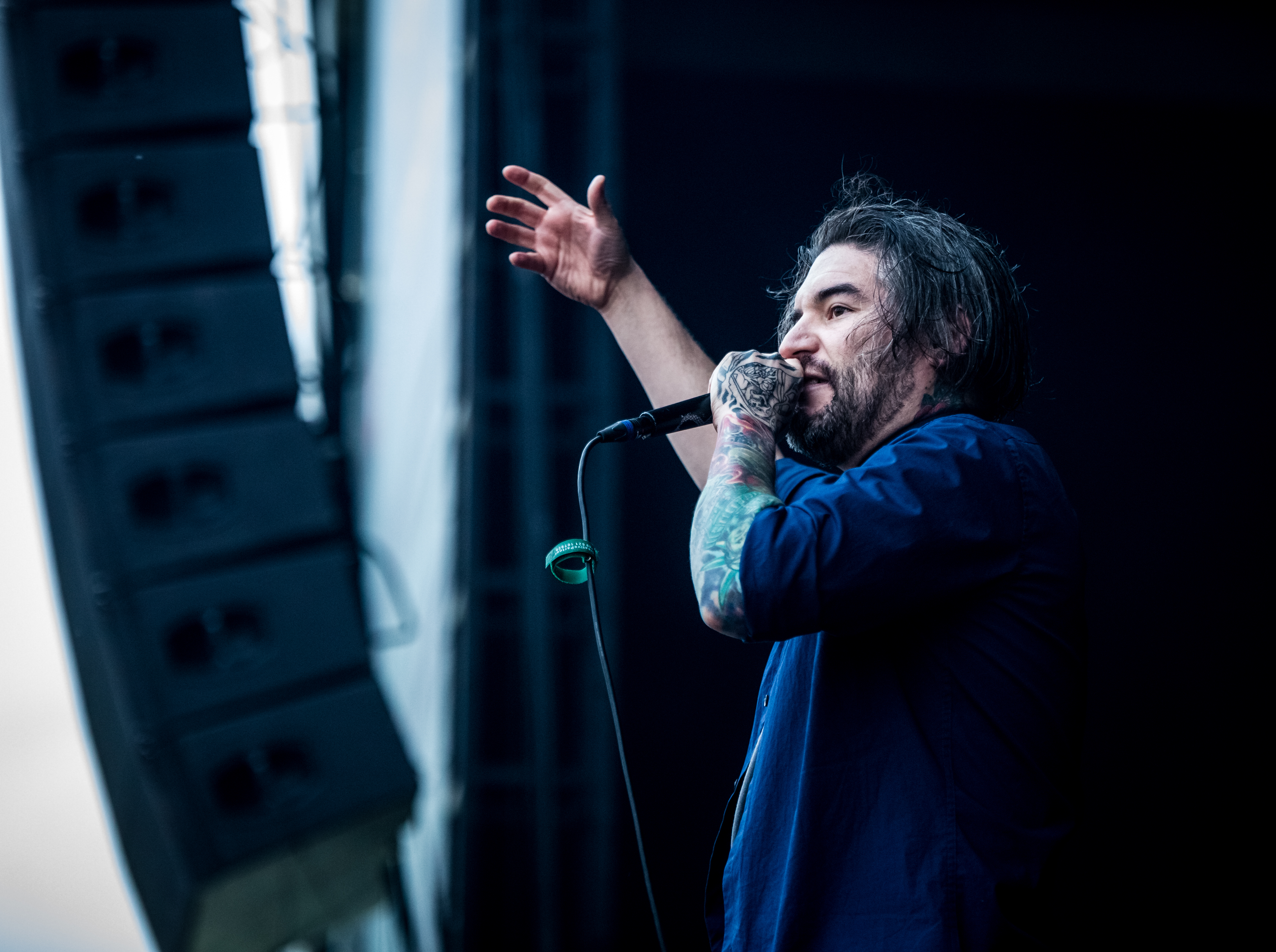 Suicide Silence - Rock am Ring 2017